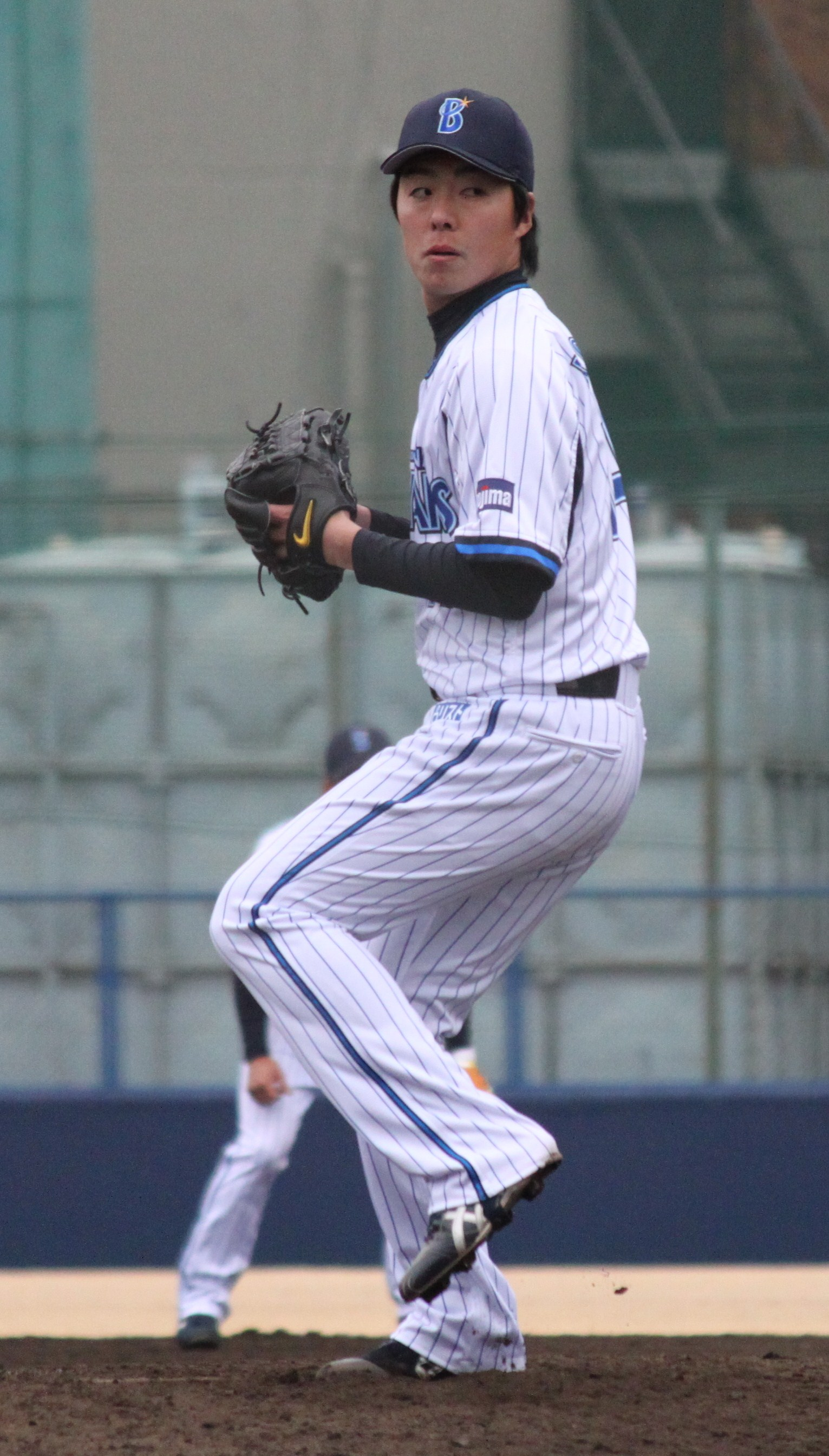 Futoshi Kobayashi, pitcher of the Yokohama DeNA BayStars, at Yokohama DeNA BayStars Baseball Integrated training field.